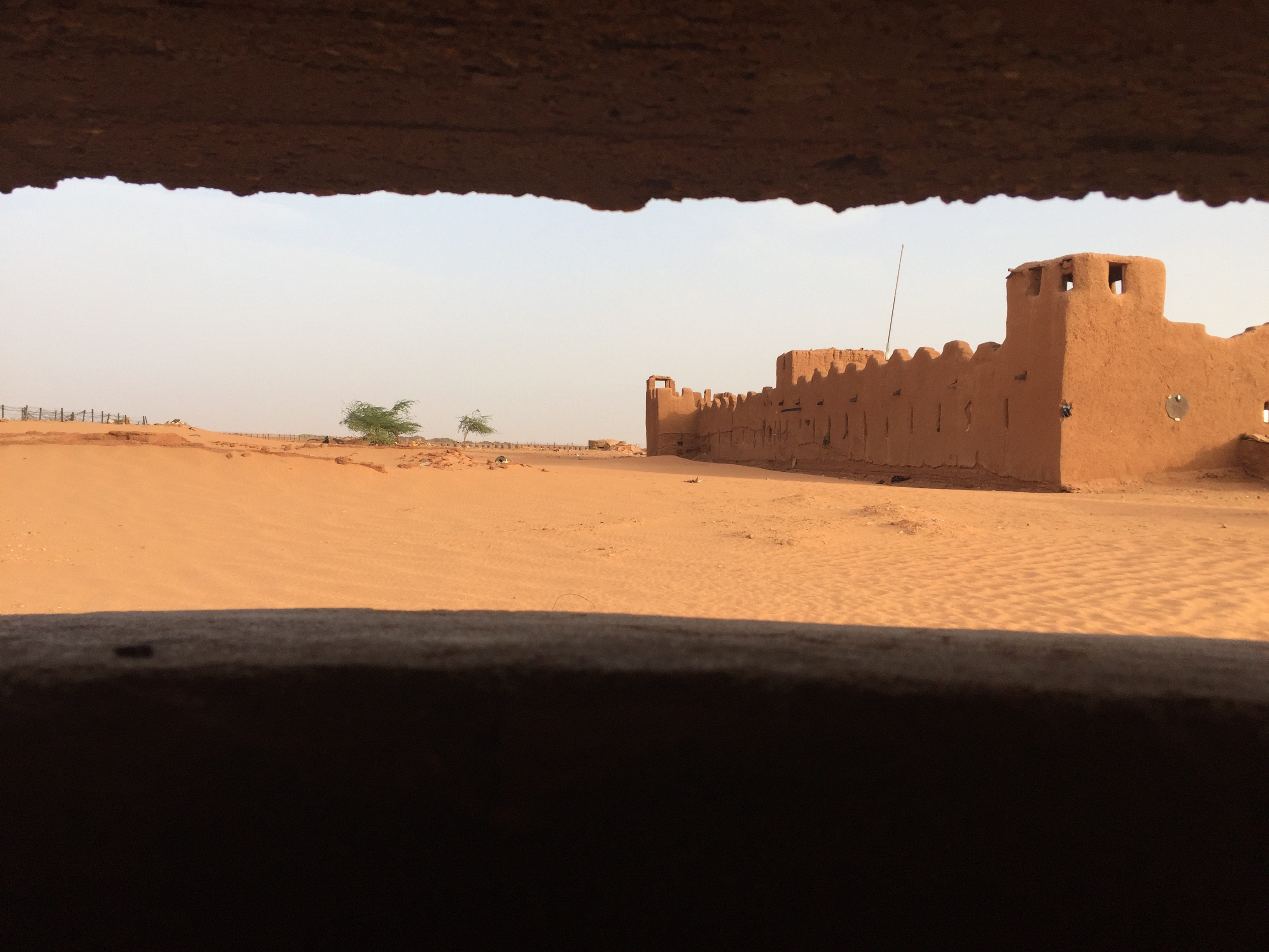 Fort Madama viewed from a position in the former minefield, looking south. On the left the barbed wire still can be depicted (June 2017).